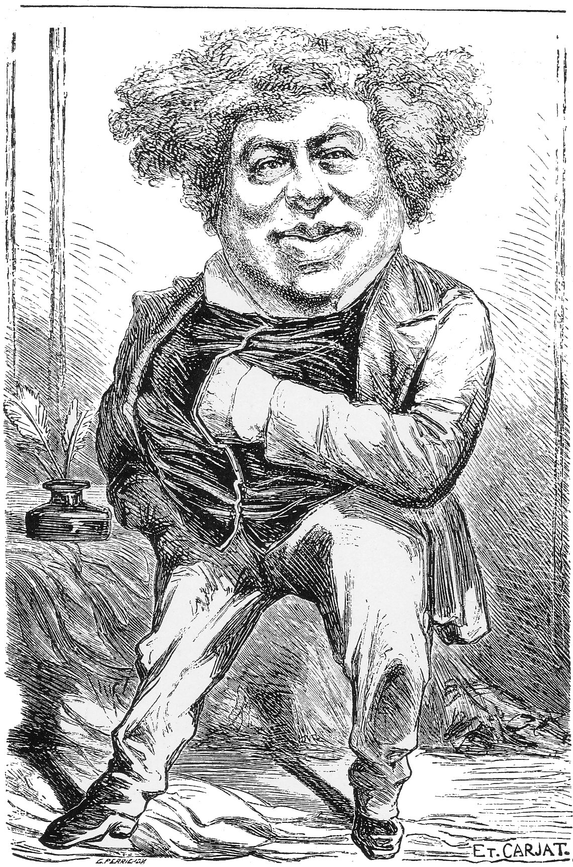 Alexandre Dumas (father)